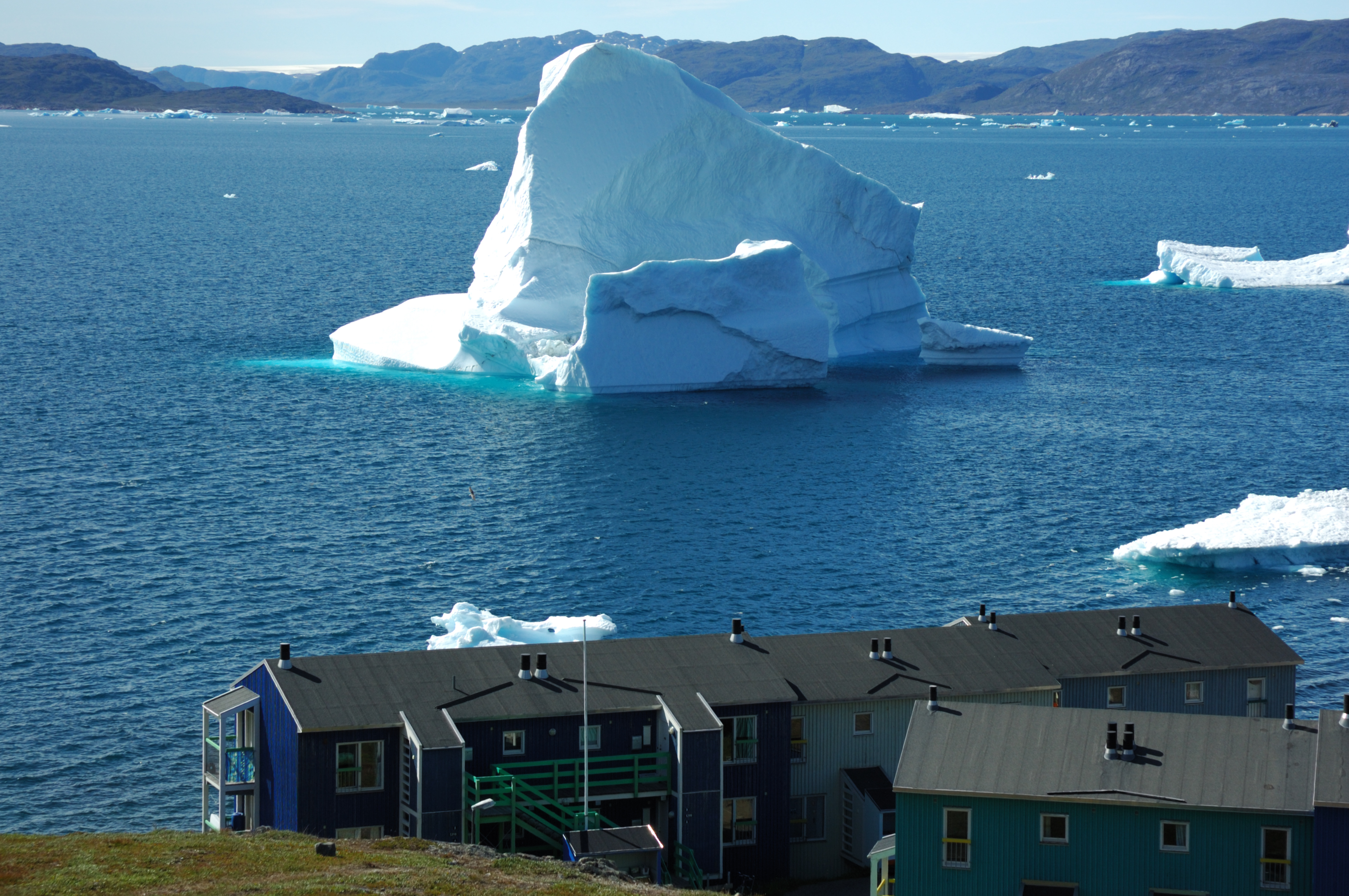 Iceberg seen from the town of Narsaq, Greenland